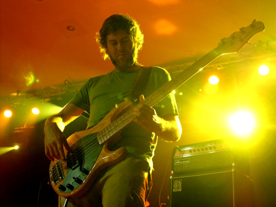 Majorcan bassist Joan Roca performing live with Antònia Font in Sueca